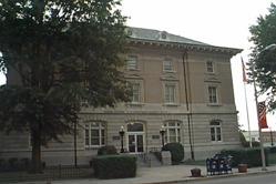 Picture of Elizabeth City Office, which holds federal cases